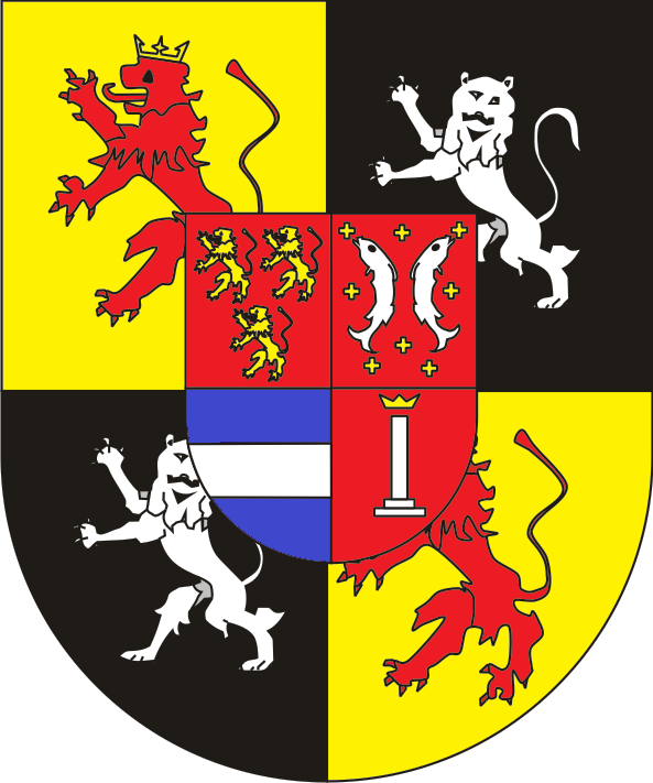 coats of arms of the county of Salm-Neufville-Anholt; 1,4: wildgraviat of Dhaun; 2,3: rhinegraviat of Stein; heart: 1: wildgraviat of Kyrburg; 2: county of Salm; 3: lordship of Vinstingen;4: lordship of Anholt